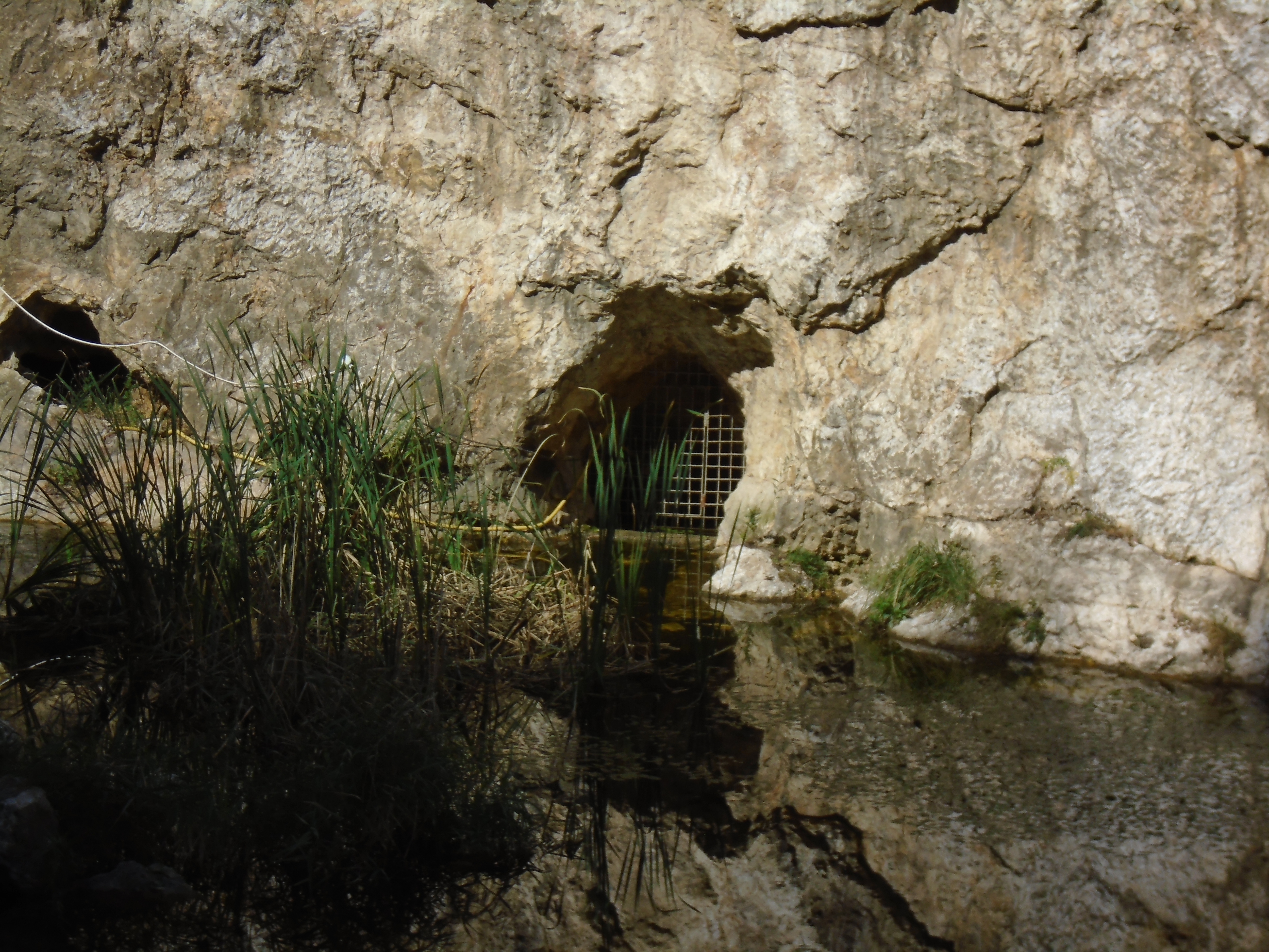 Entrance of Csókavári Cave in Üröm.